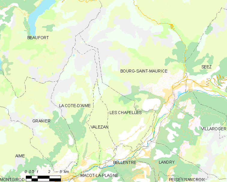 Map of French municipality